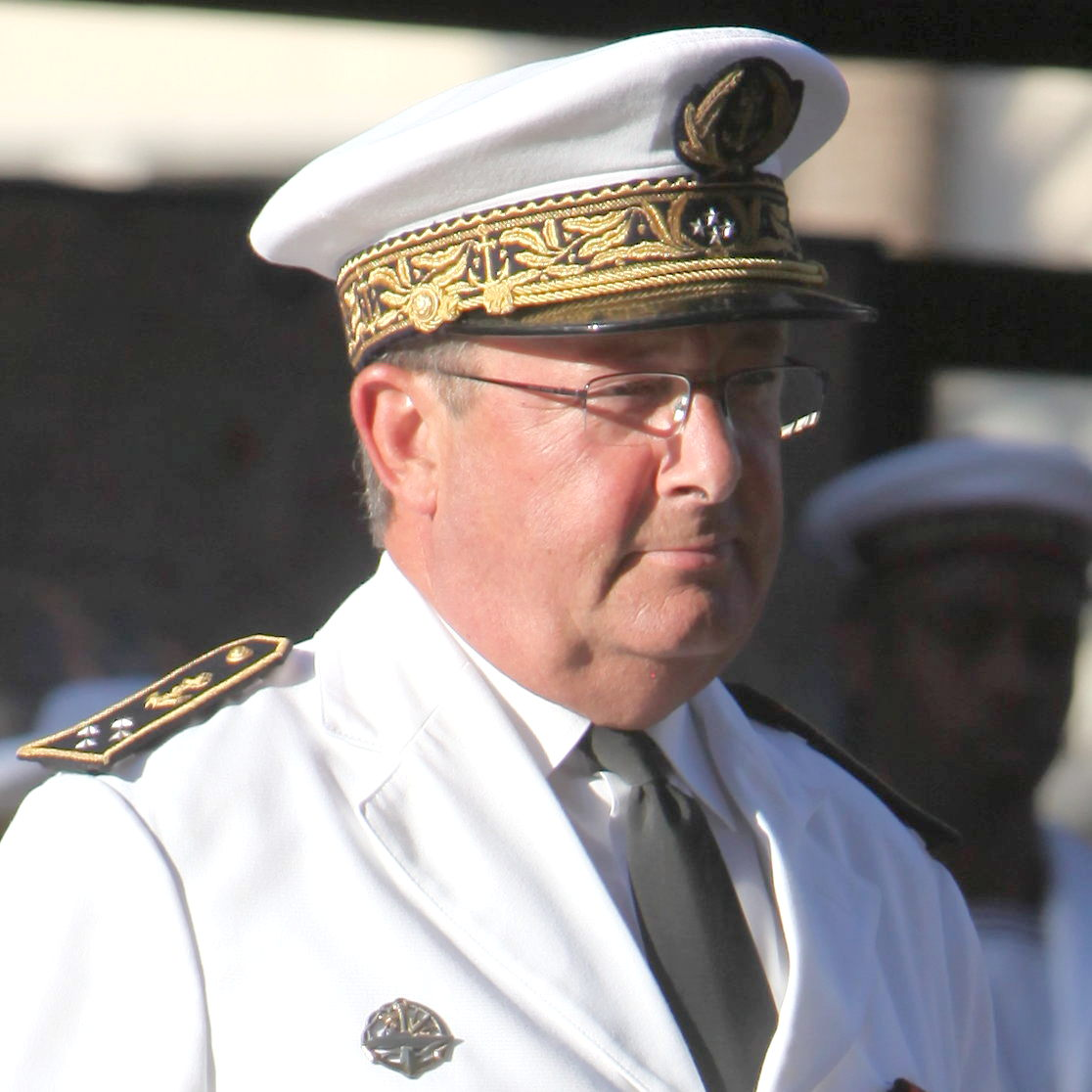 Admiral Yann Tainguy, commanding officer for the Mediterranean maritime defence zone and Maritime Prefect for the Mediterranean, at the ceremonies of the 14th of July 2011 in Toulon..